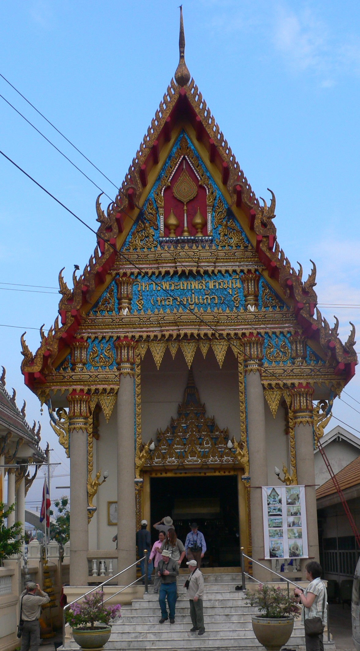 My image, Thailand Feb 2008